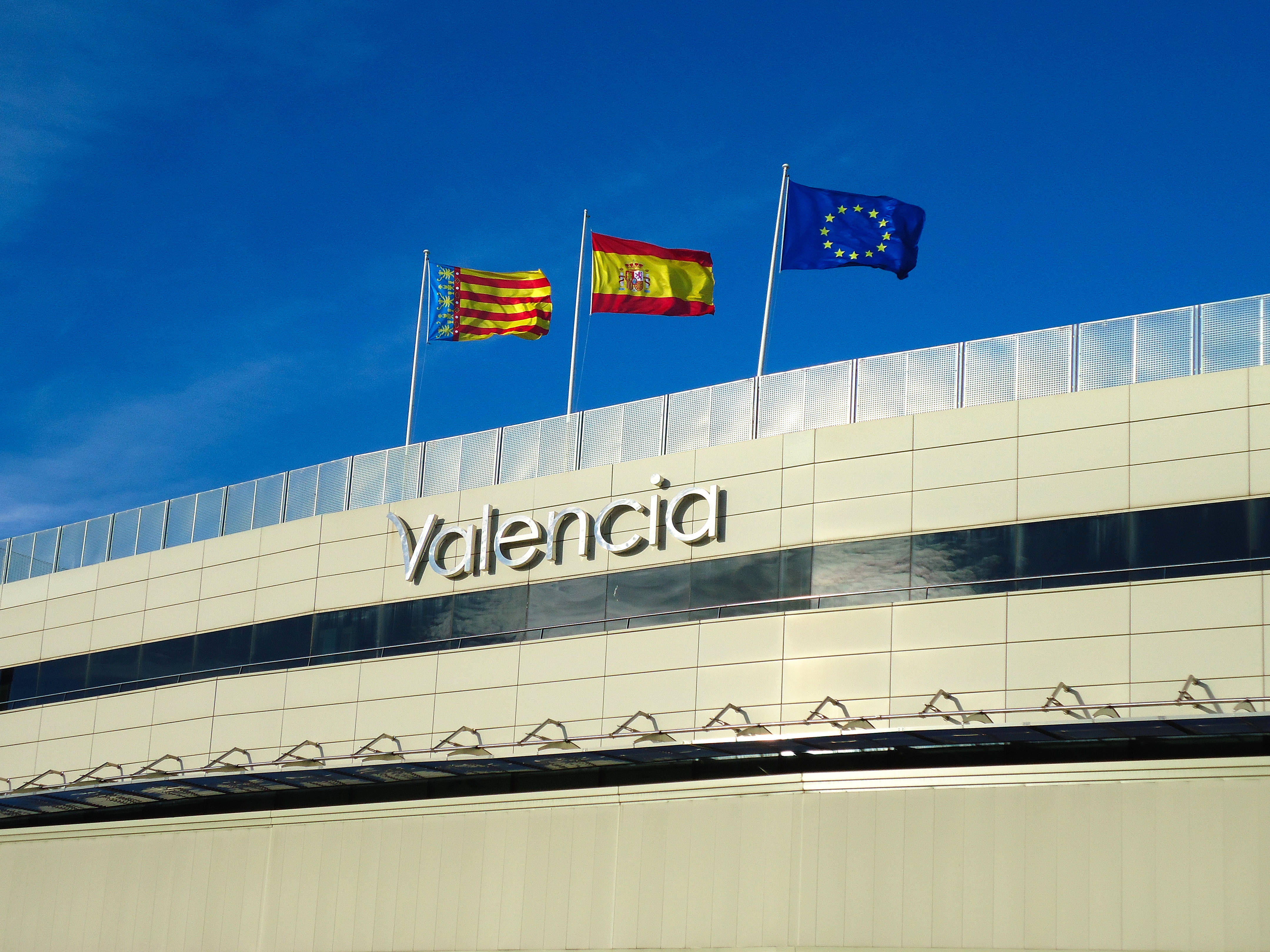 Valencia Airport